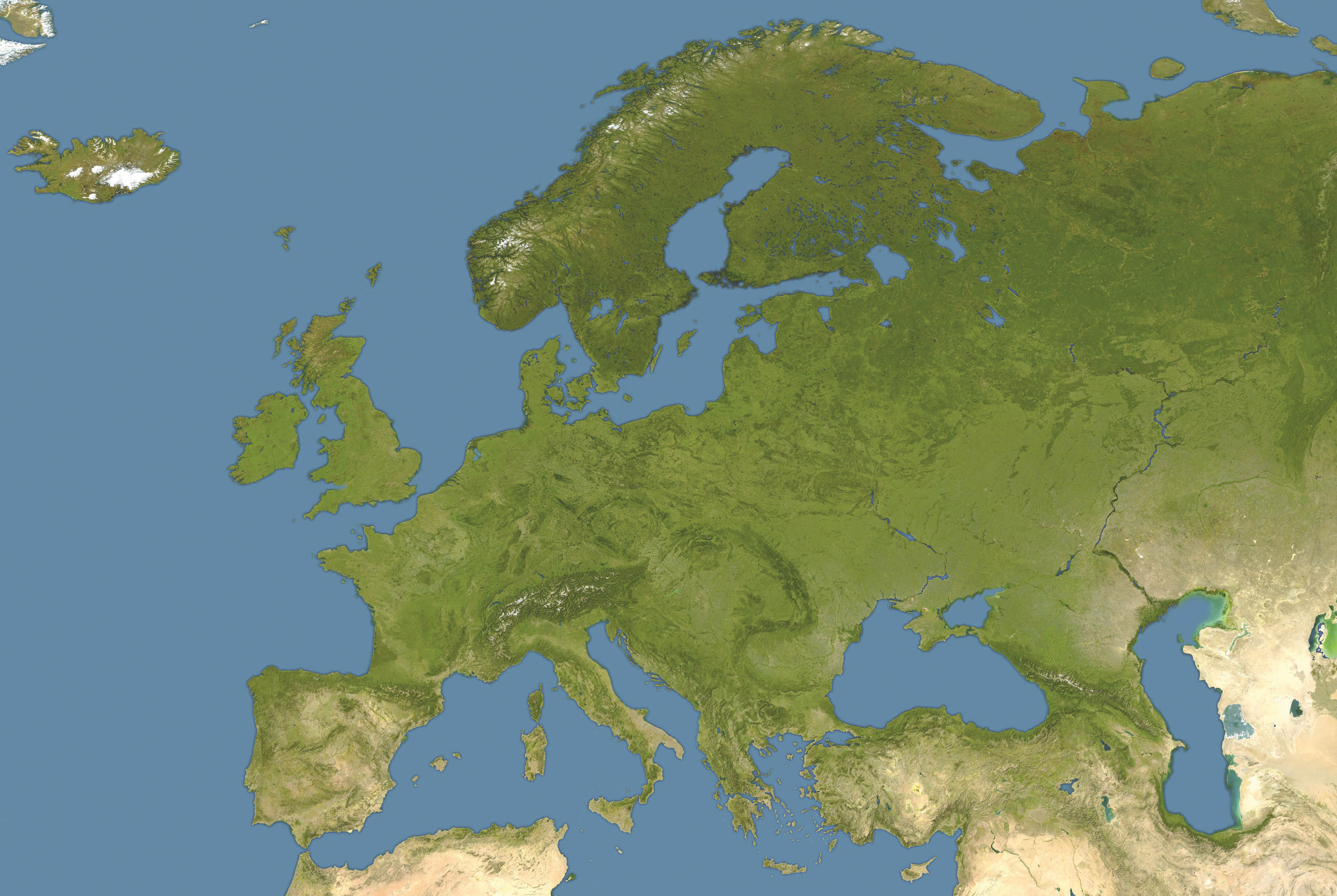 Location map of Europe, satellite image Equirectangular projection, N/S stretching 150 %. Geographic limits of the map: N: 72° N S: 34° N W: 25° W E: 60° E